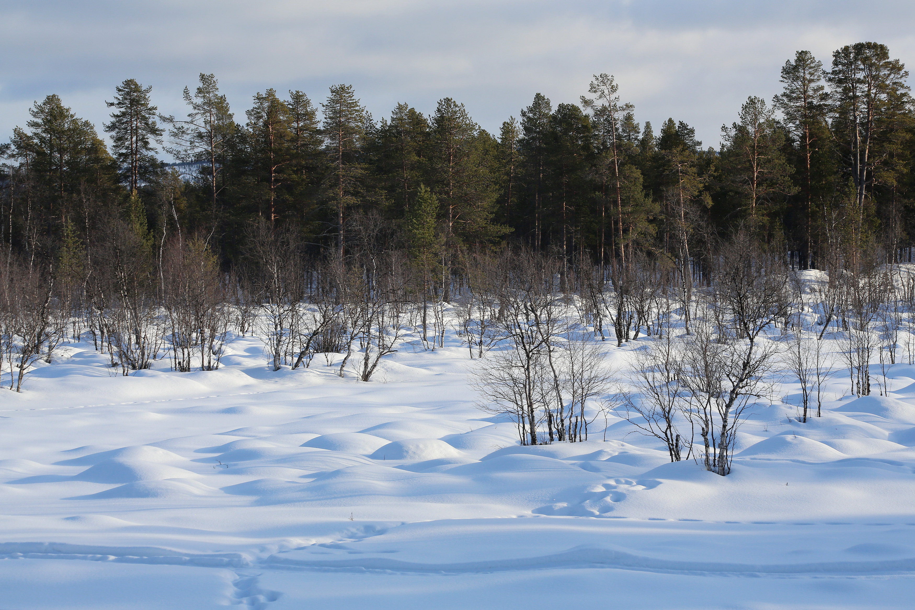 At frozen Haukkapesäjoki in Inari, Finland.